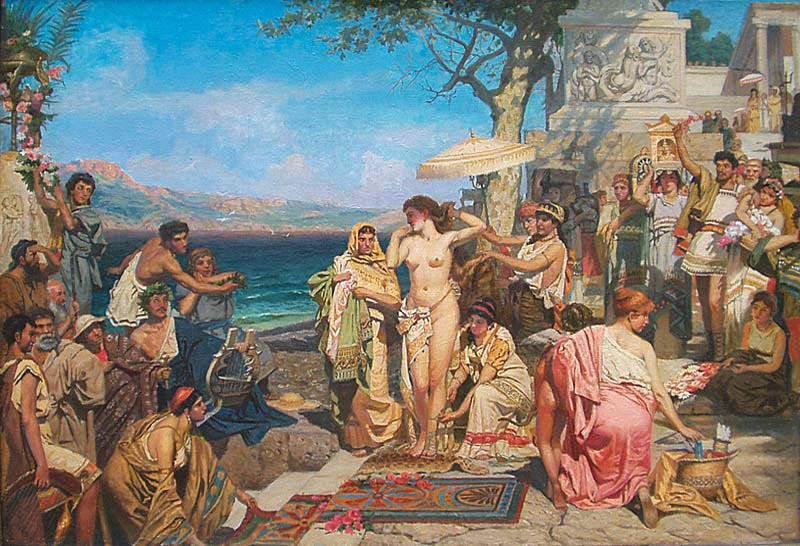 Copy after painting with same name of Henryk Siemiradzki, 1889.